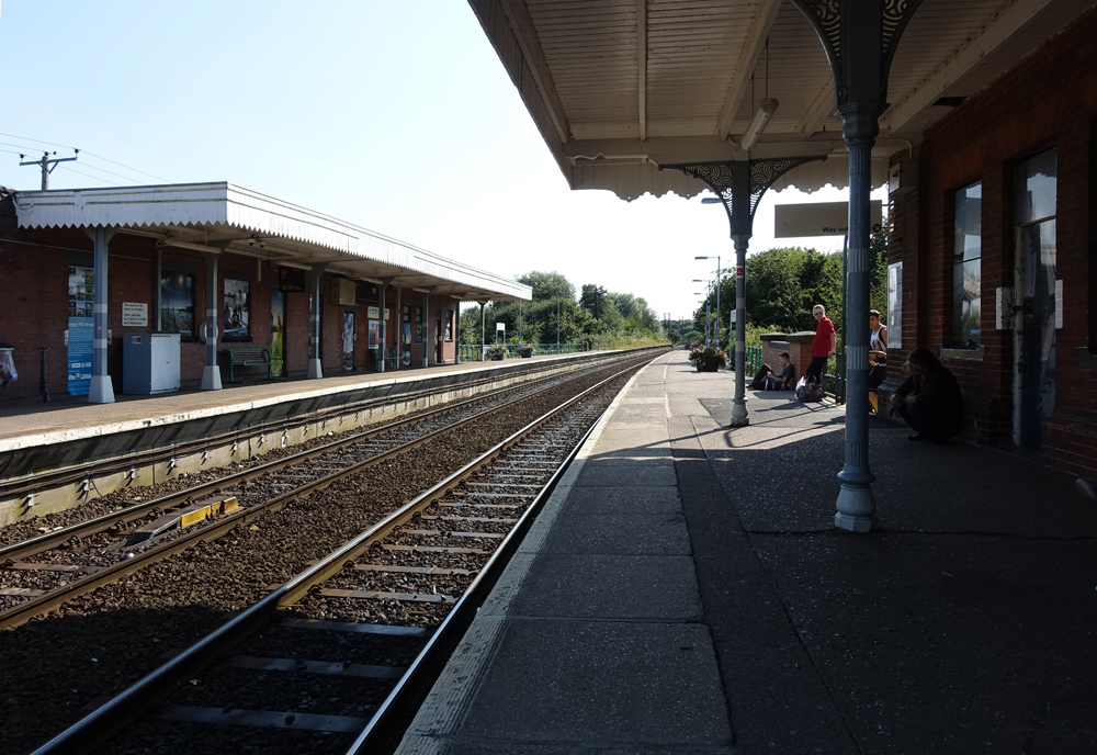 Hoveton & Wroxham Station